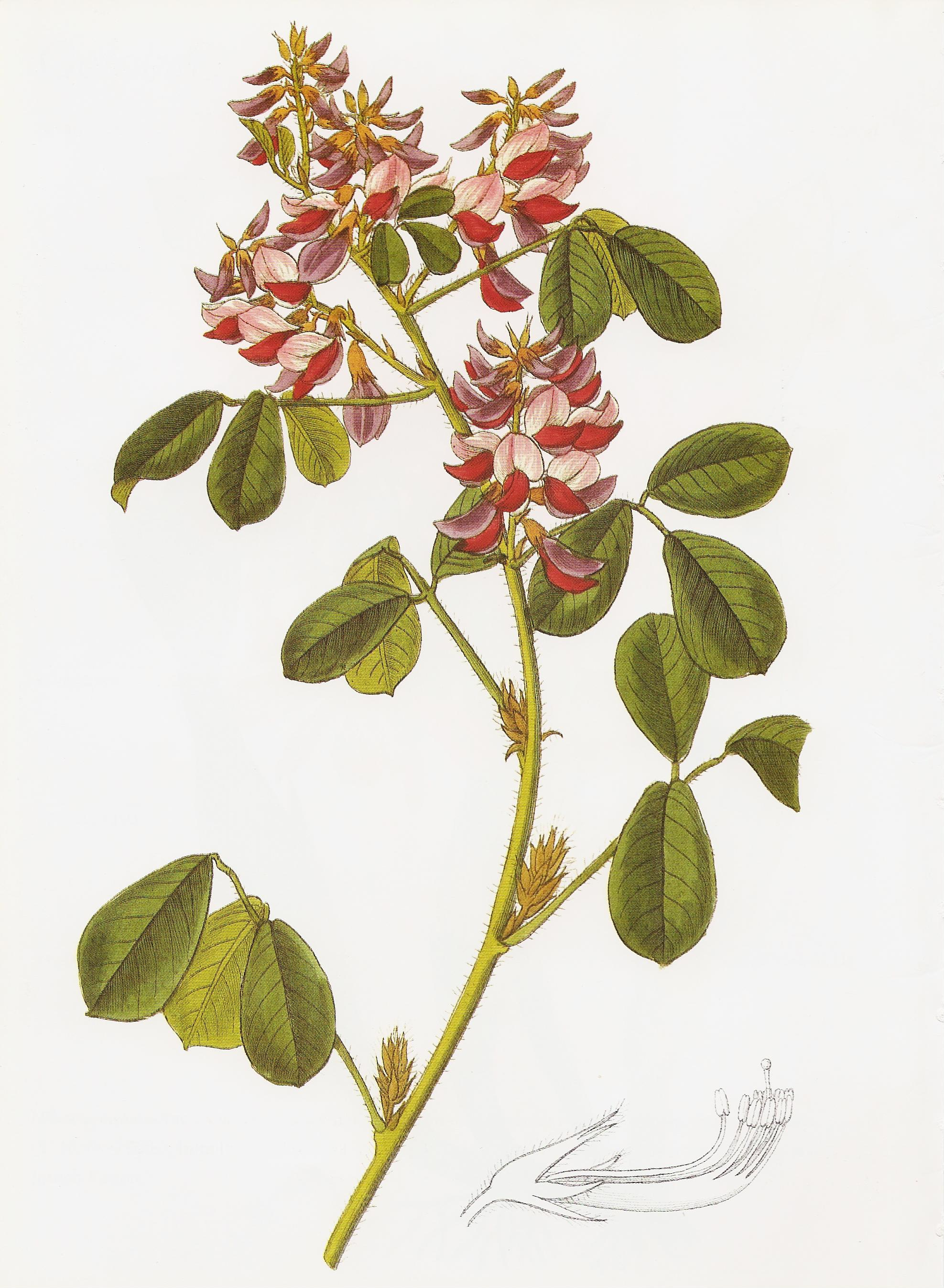 Oxyramphis (now Lespedeza) macrostyla, a hand-coloured engraving after a drawing by Miss S. A. Drake (fl. 1820s-1840s), from the 32nd volume of the Botanical Register (1846), edited by John Lindley. This plant was introduced into England through the Horticultural Society in 1845.